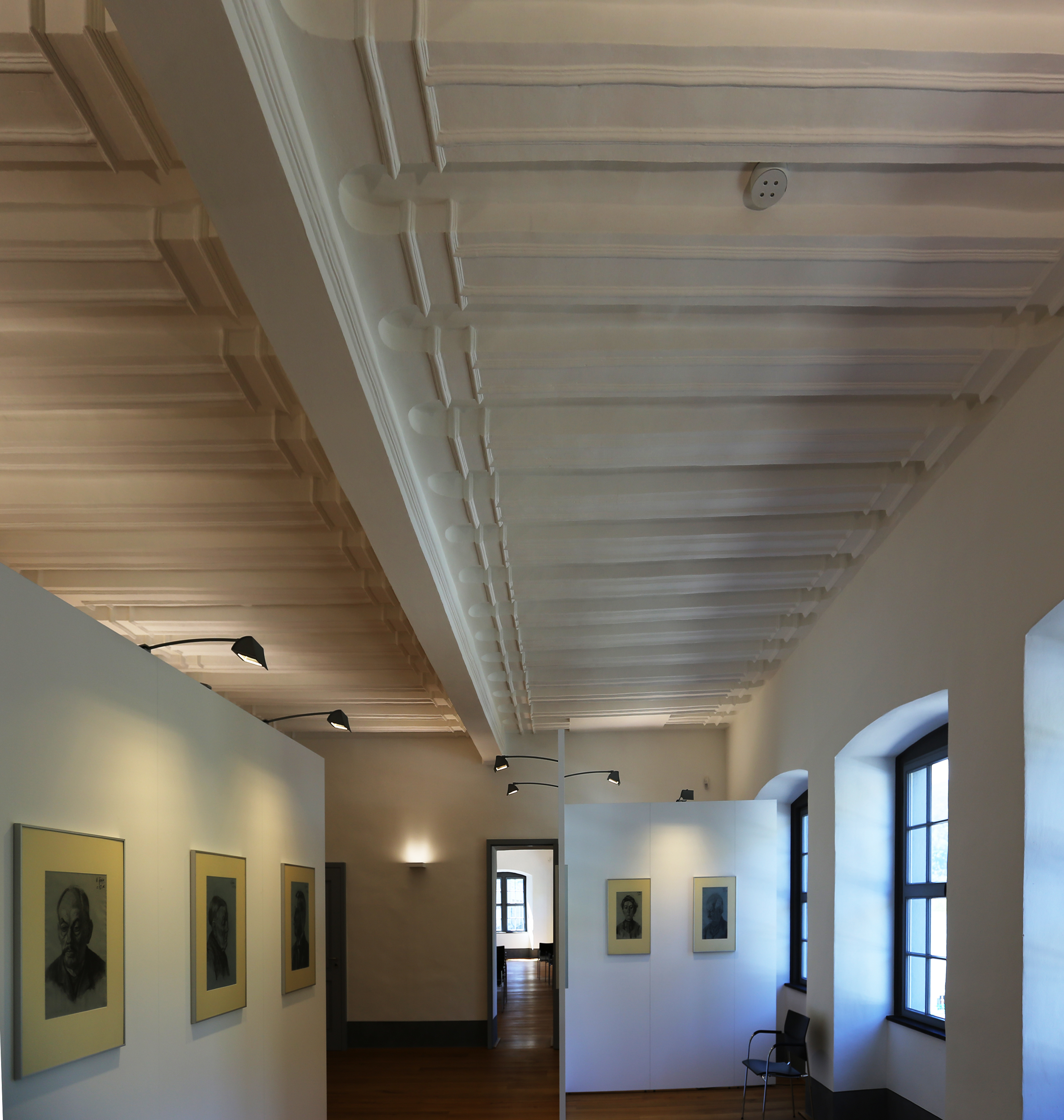 Museum Bopppard in the old electoral castle of Boppard